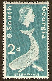 2d stamp from South Georgia showing a sperm whale (SG #3)